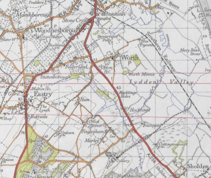 A map of Worth from 20th century Ordnance Survey